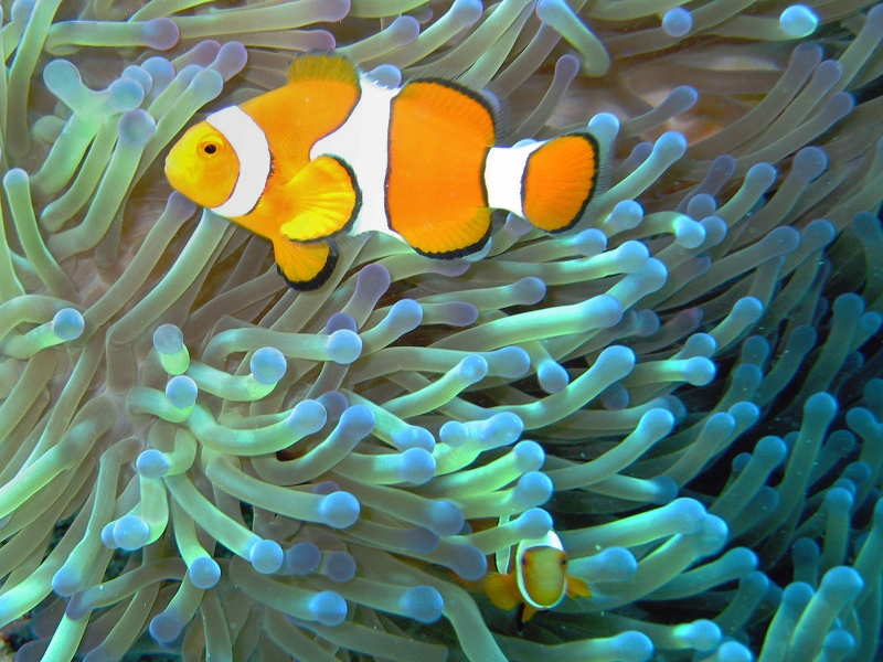 Common Clownfish (Amphiprion ocellaris) in their Magnificent Sea Anemone (Heteractis magnifica) home on the Great Barrier Reef, Australia.